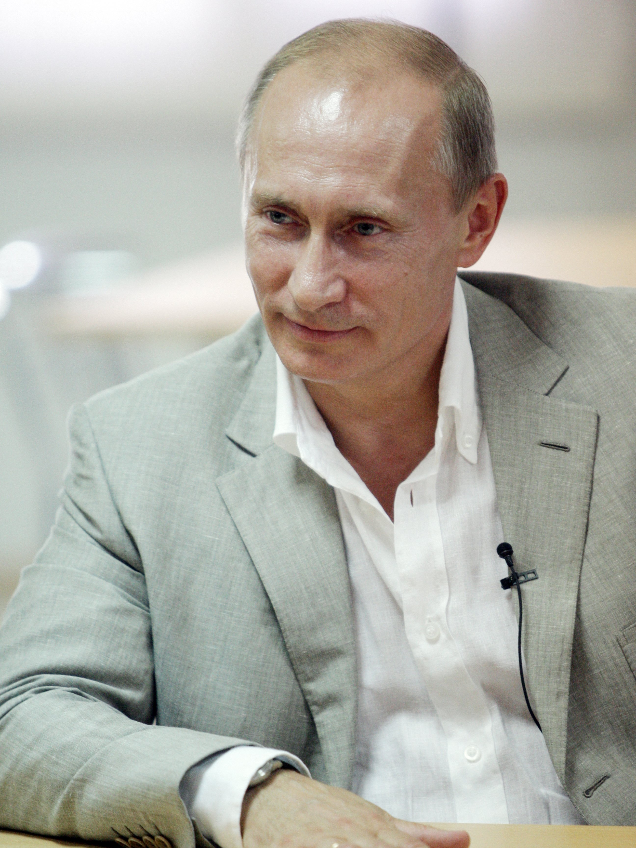 Official portrait of Vladimir Putin.